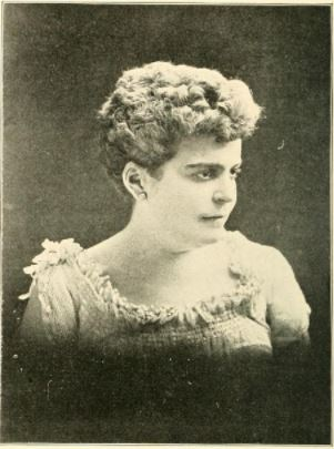 Mrs Harmer-Reeside